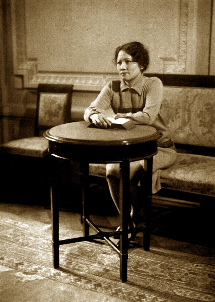 Soong Ching-ling in Moscow